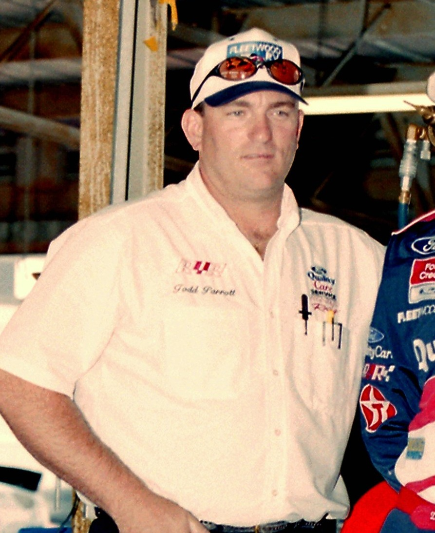 NASCAR crew chief Todd Parrott (original pic includes driver Dale Jarrett)